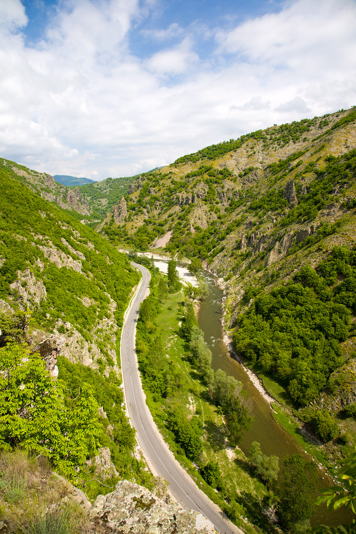 Momina klisura, a passage along the Mesta river in south-western Bulgaria